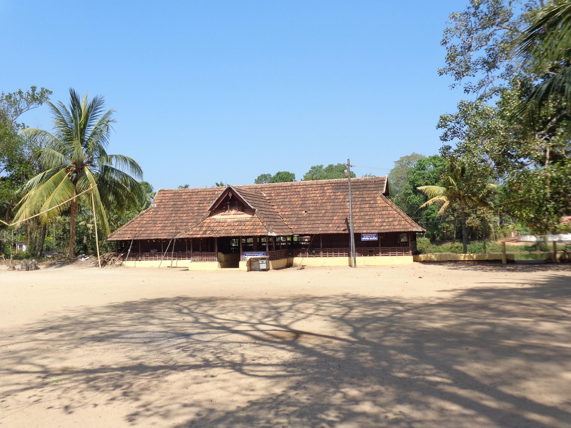 pond house at thrpperunthura mahadeva temple, chennithala, mavvelikara